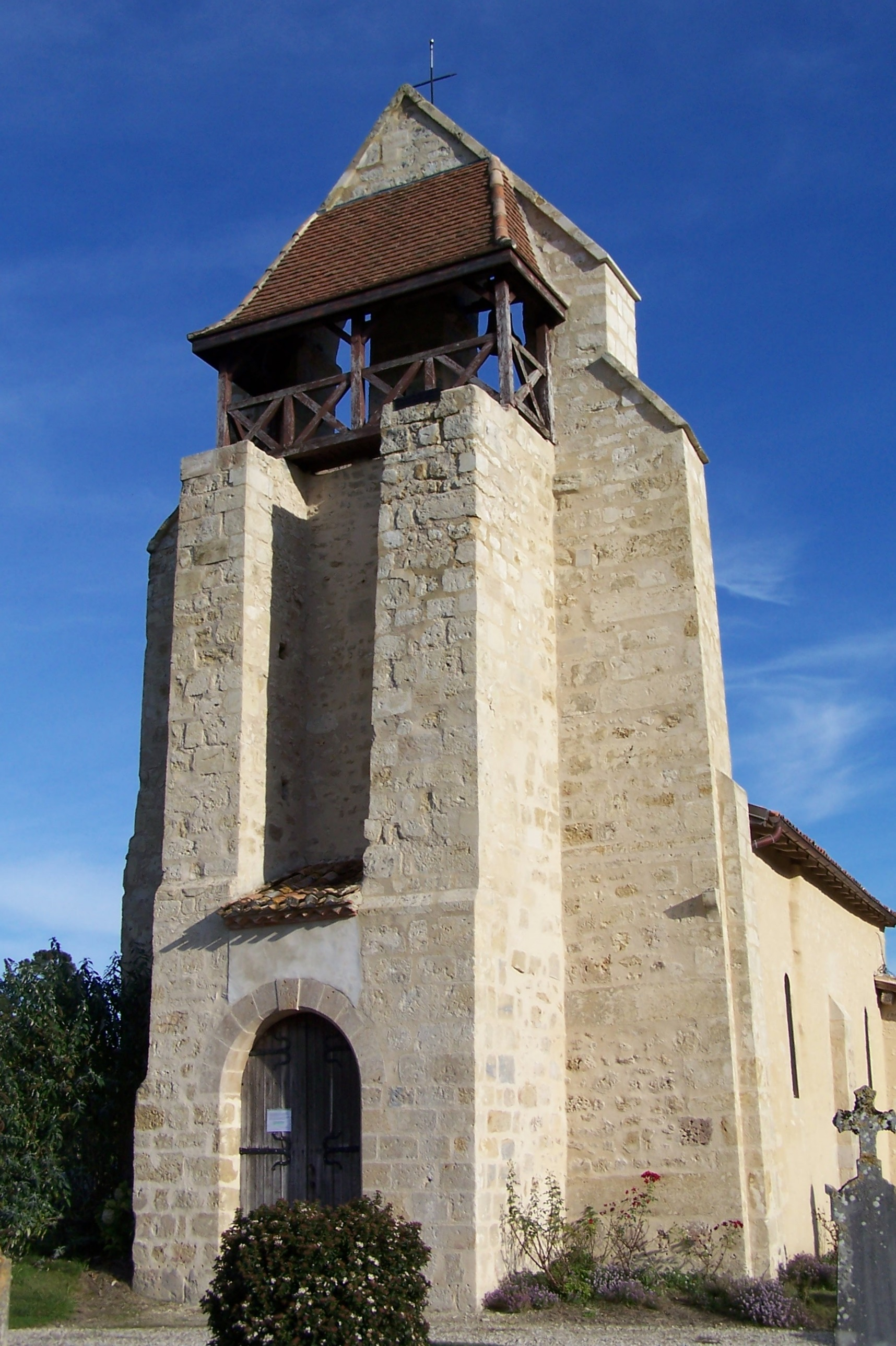 Church of Marimbault (Gironde, France)